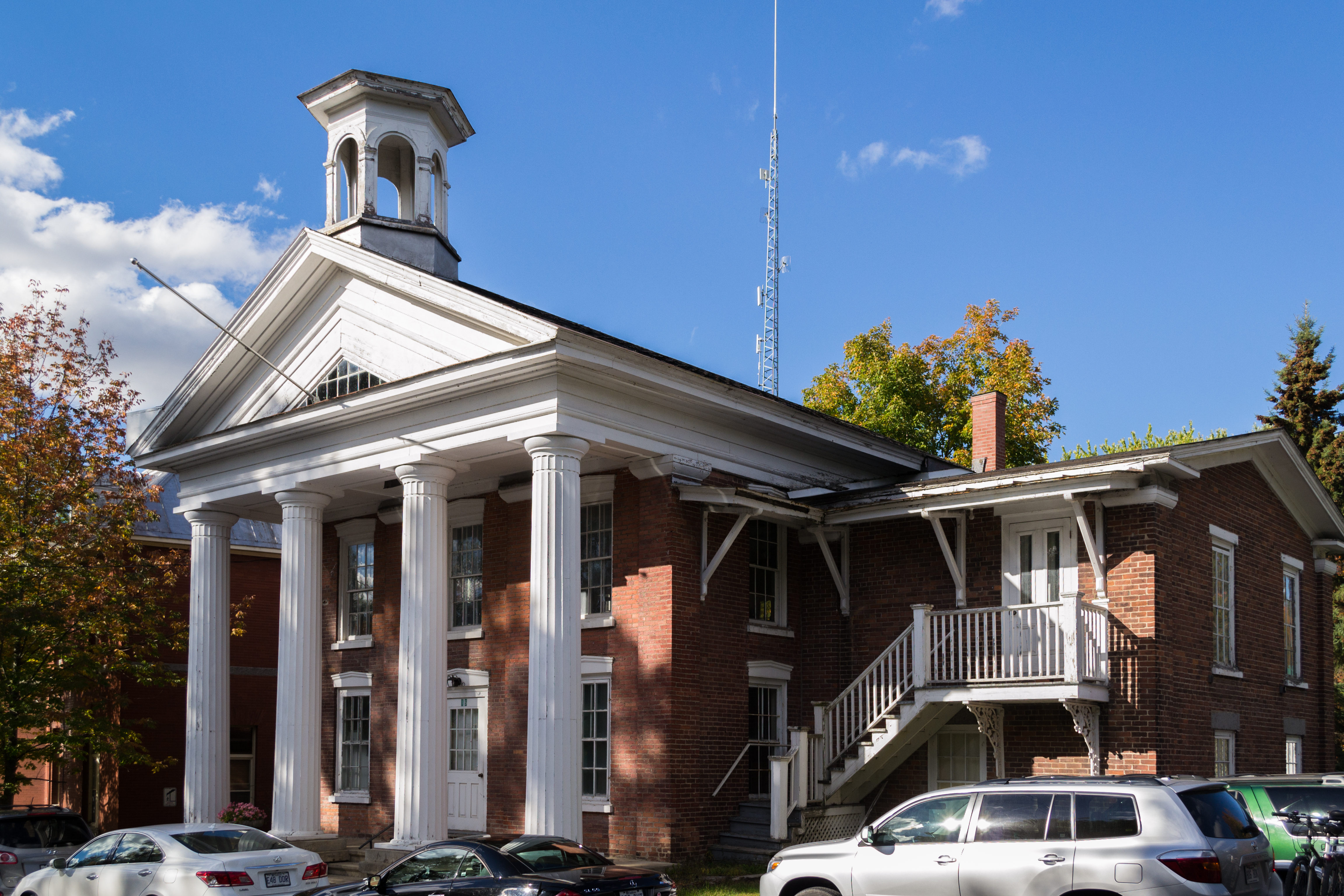 The Old Court House and Registry Office of Brome County, located in Brome Lake, Quebec.